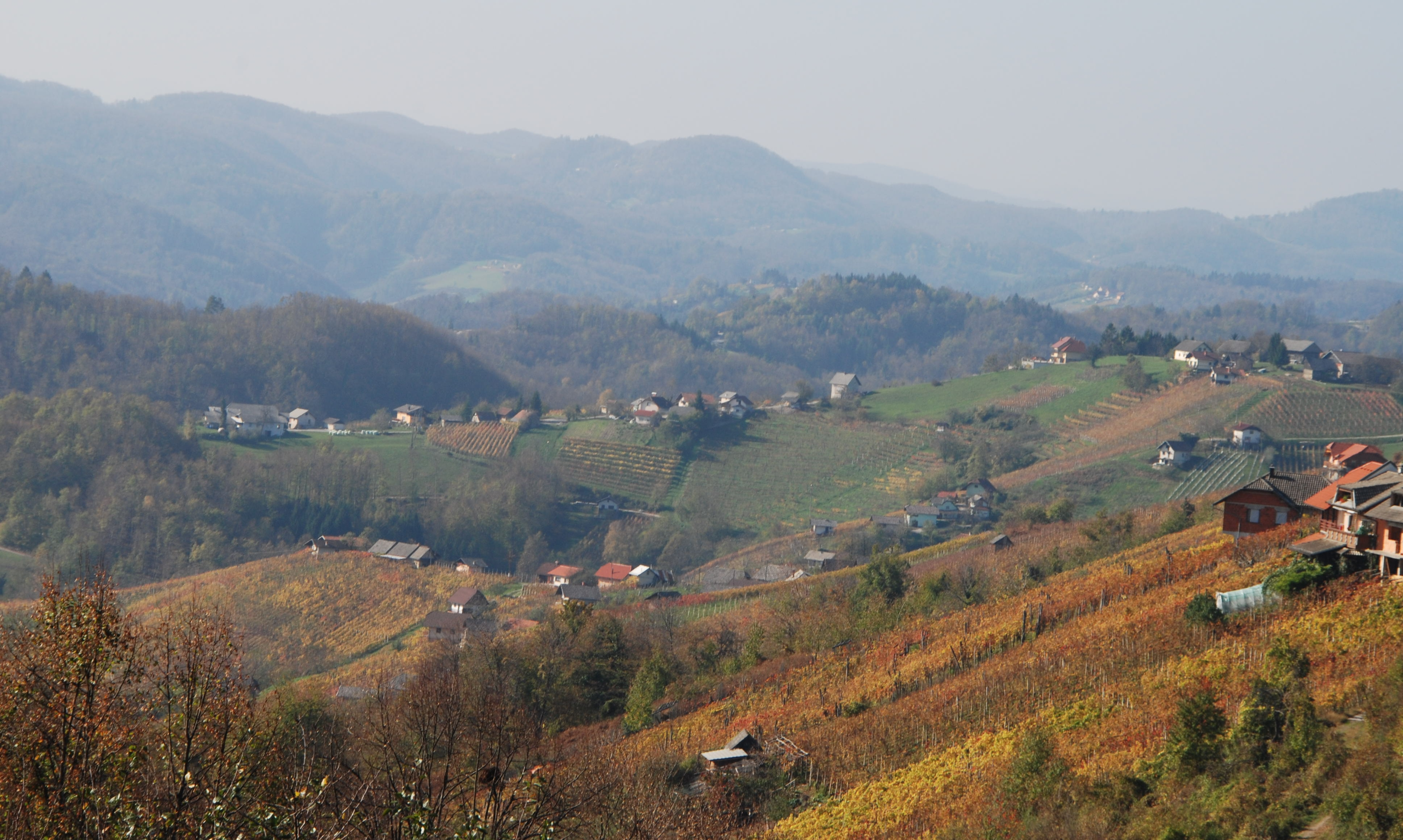 Pavla Vas, view from Slančji Vrh (Municipality of Sevnica, southeastern Slovenia). In the front, part of the village of Malkovec.